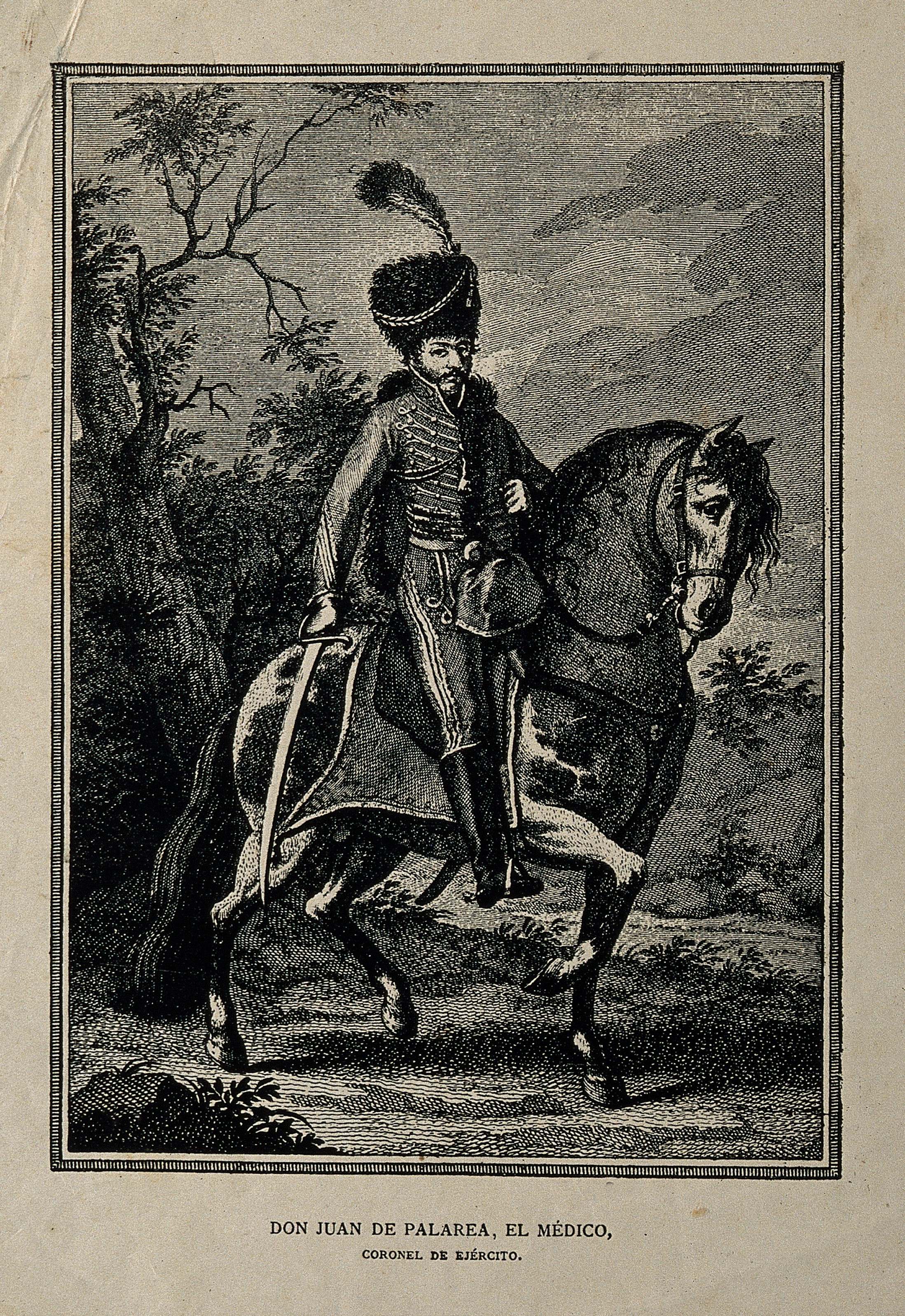 Juan Palareo. Reproduction of line engraving. Iconographic Collections Keywords: portrait prints; Juan Palareo